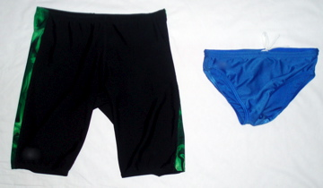 A jammer style swimming suit next to a speedo style swimming suit.